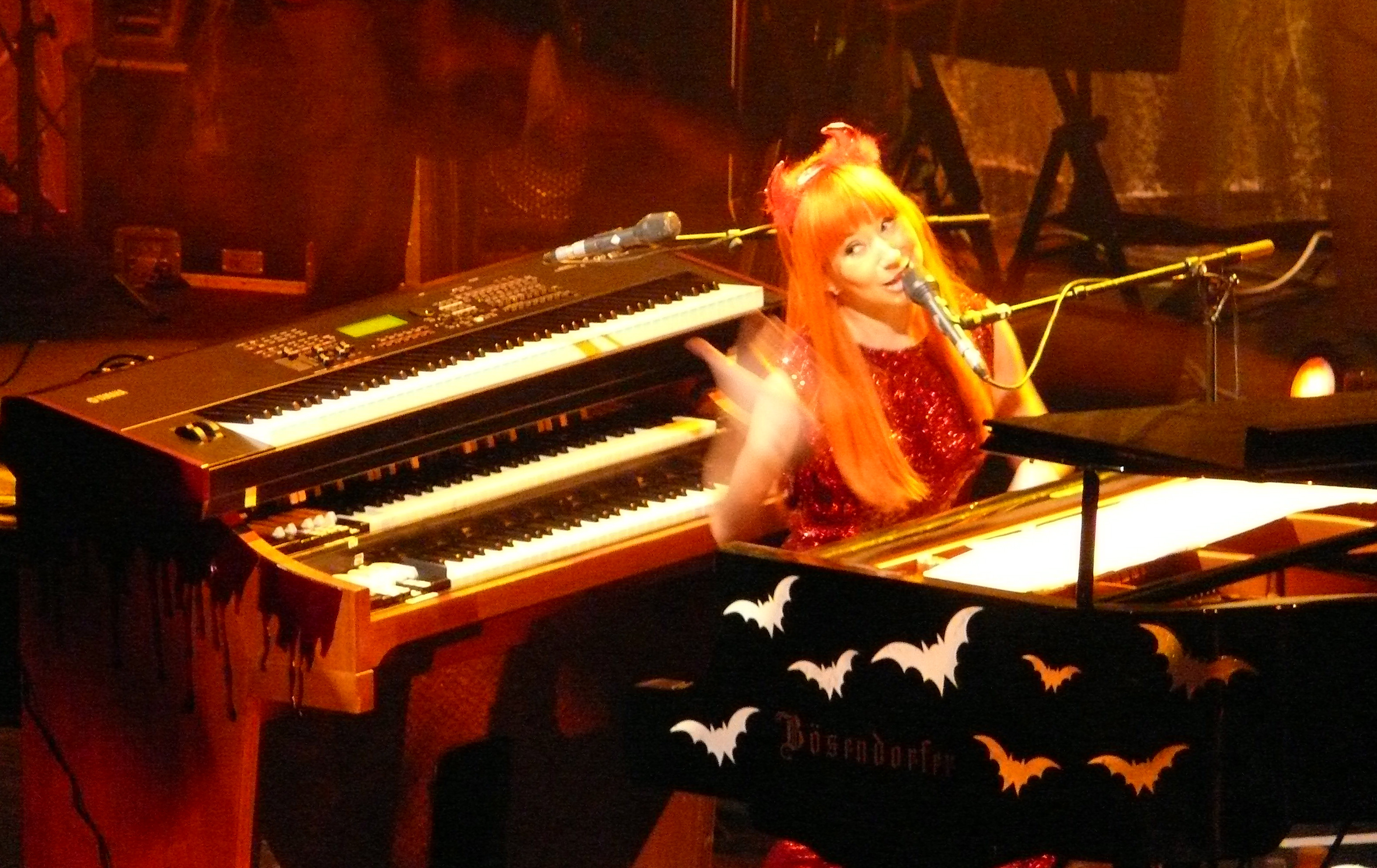 Tori Amos and friends came to the Benedum Tuesday night. More to follow tomorrow. right to left Bösendorfer Model 290 ConcertGrand Yamaha S90 ES Hammond B3